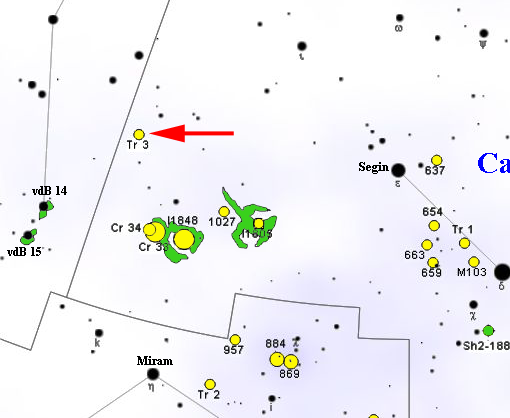 Map of Trumpler 3